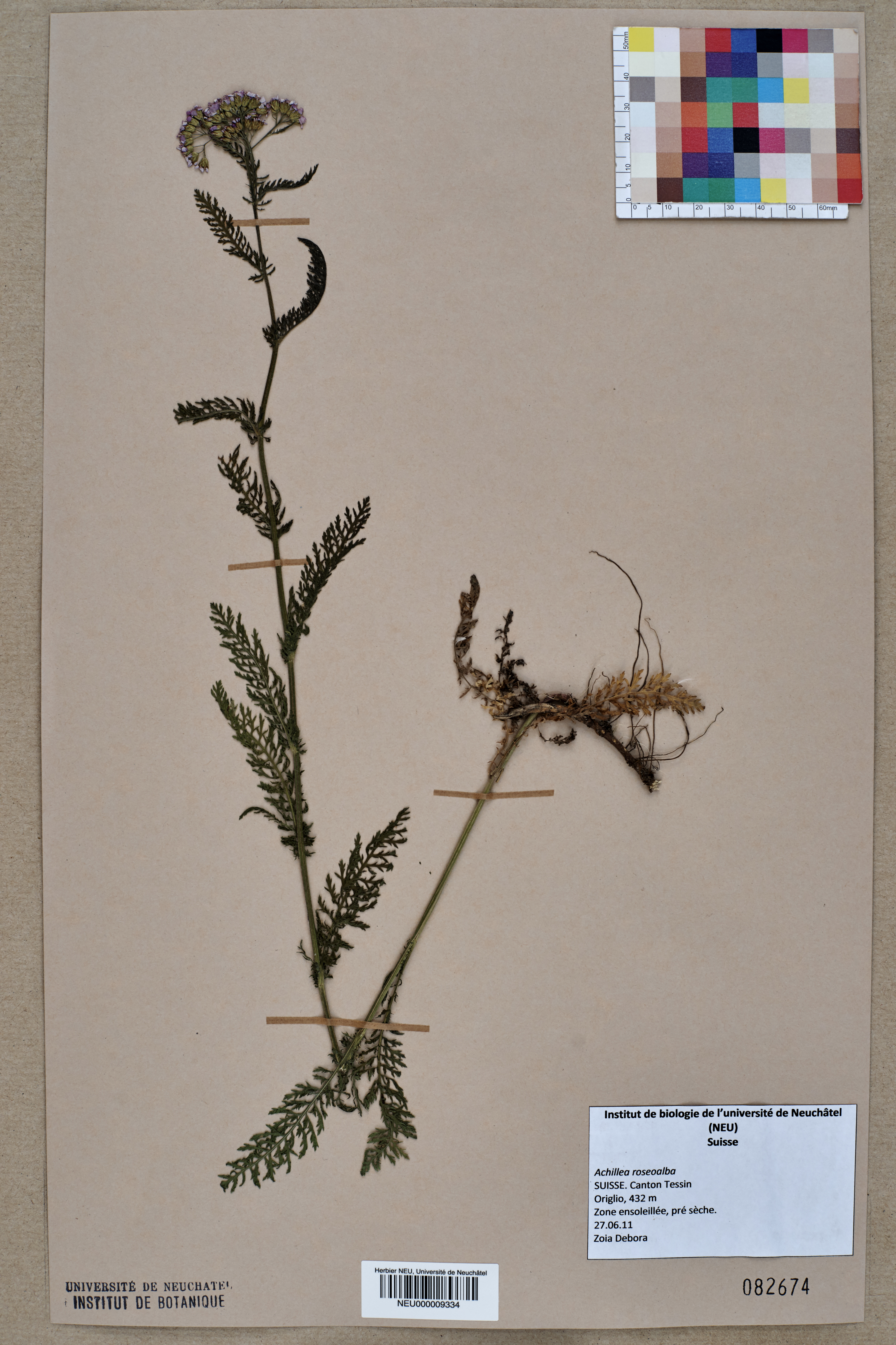 Dried pressed specimen of Achillea roseoalba